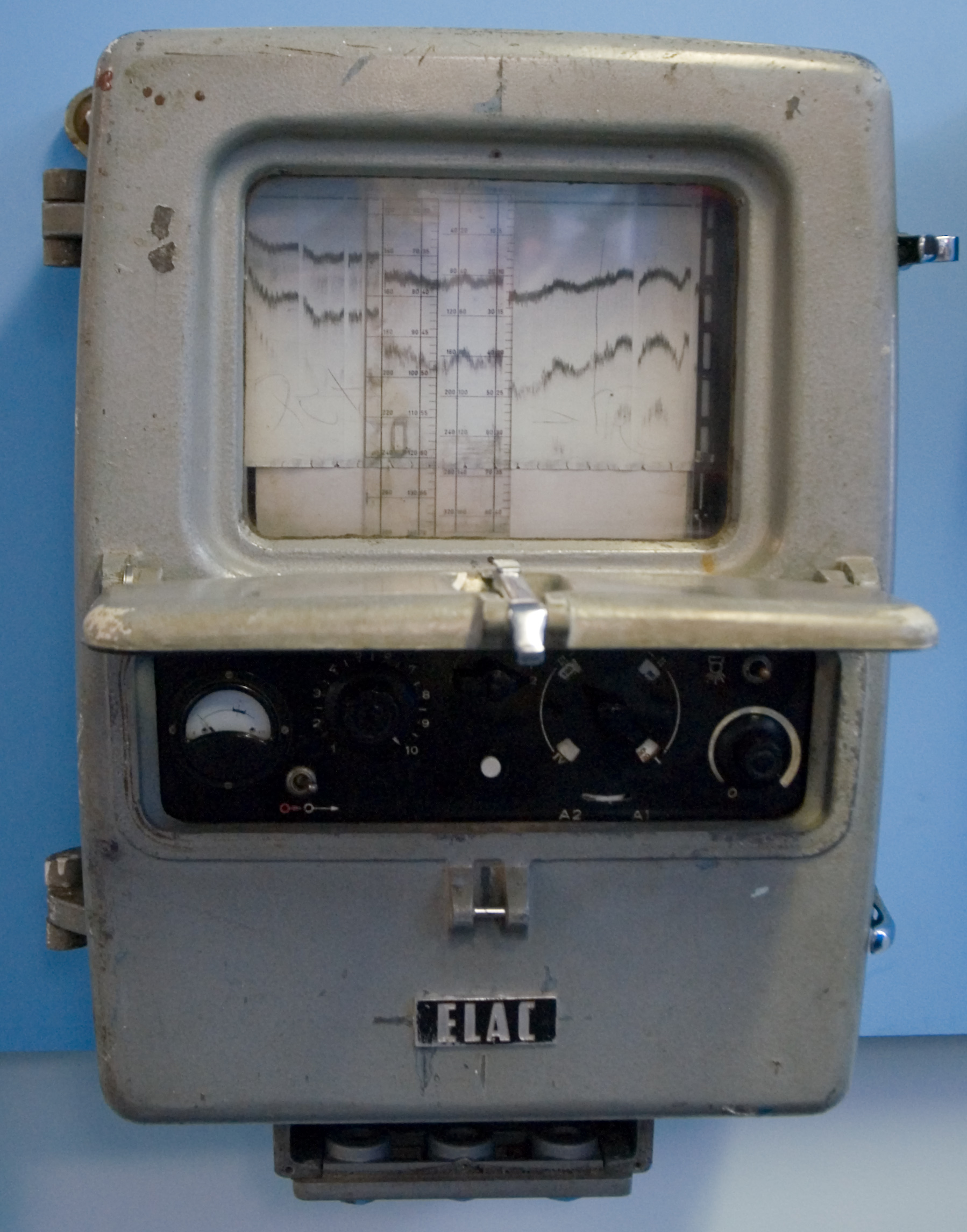 Eden Maritime Museum.